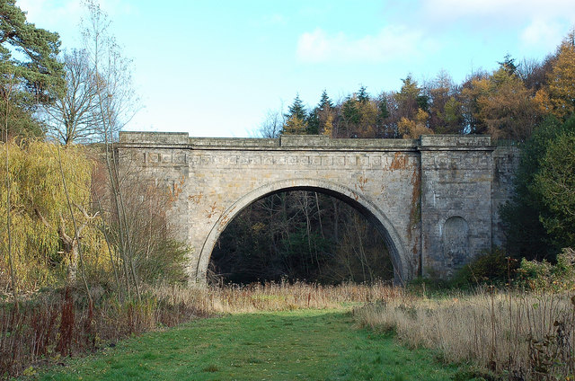 Montagu Bridge, Dalkeith Country Park This elegant 18th century bridge as seen from the east bank of the North Esk.